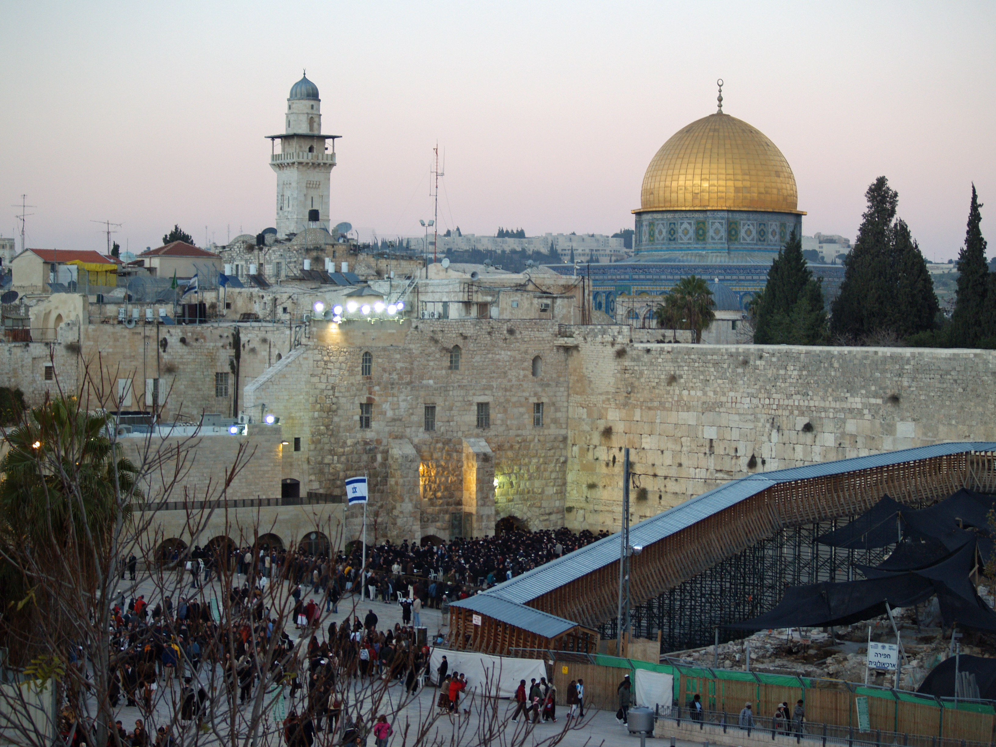 Temple Mount and Western Wall during Shabbat